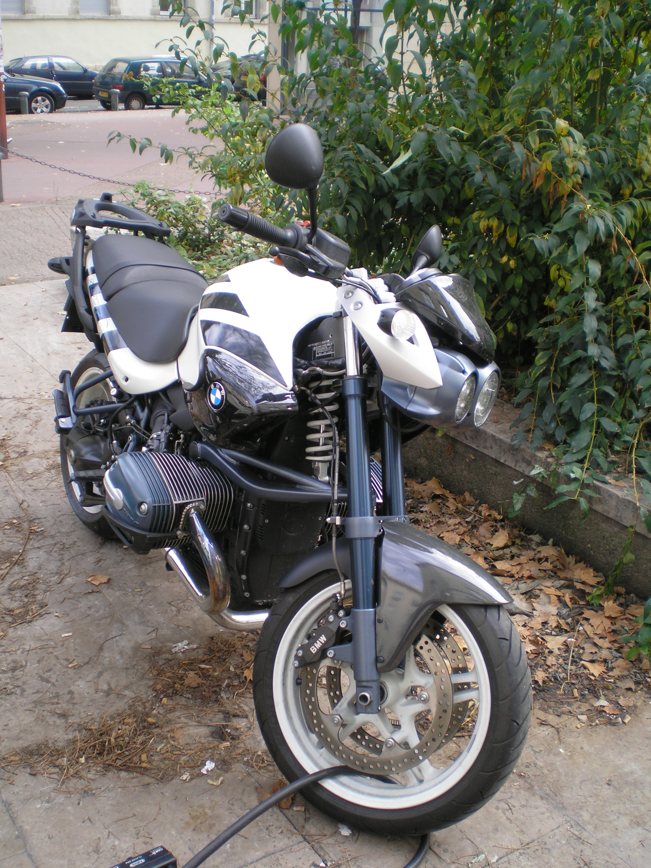 BMW R1150R Rockster Edition 80. Special Edition for the 80th anniversary of the firm.